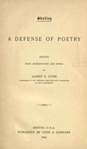 This is the front cover art for the book A Defence of Poetry written by Percy Bysshe Shelley.